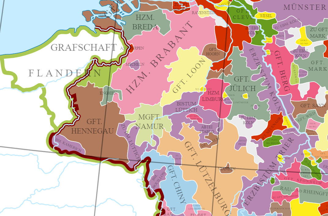 Flanders Brabant Hainaut Loon Liège Limburg Jülich Cologne Berg Namur Chiny Luxemburg (Lützelburg) Trier and other lands in the Holy Roman Empire around 1250, in the Hohenstaufen era.